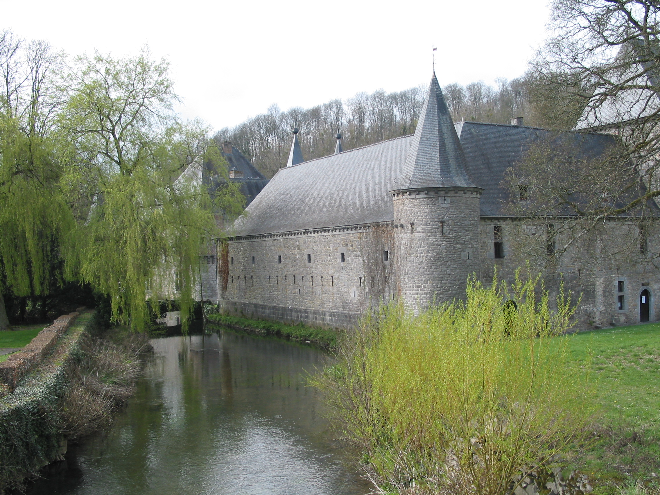 Spontin (Belgium), the Bocq river alongside the castle walls (XIII/XVI centuries). Walon: Spontin(Bèljike), li Bok londjant lès murs do tchèstê (XIII/XVIin.me sièkes).